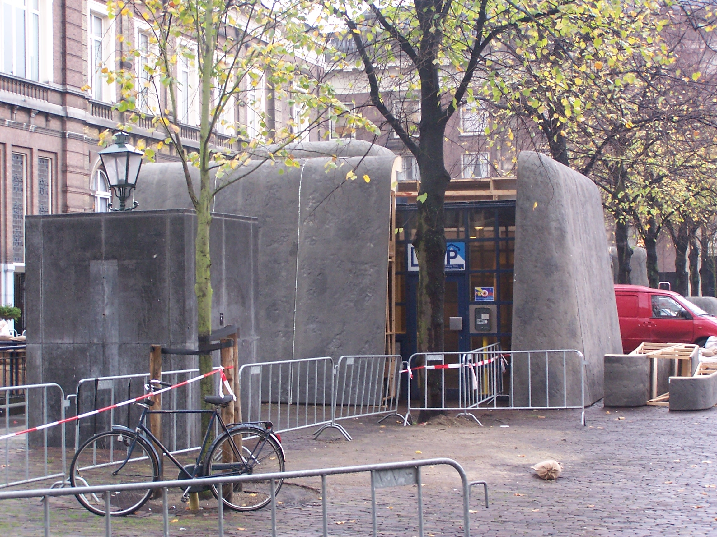 The Entrance of a modern parking garage is transformed to a bunker on the 2005 film set of Paul Verhoeven's Black Book on Plein in The Hague, The Netherlands.